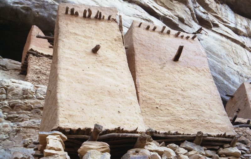 Dogon granaries in Teli